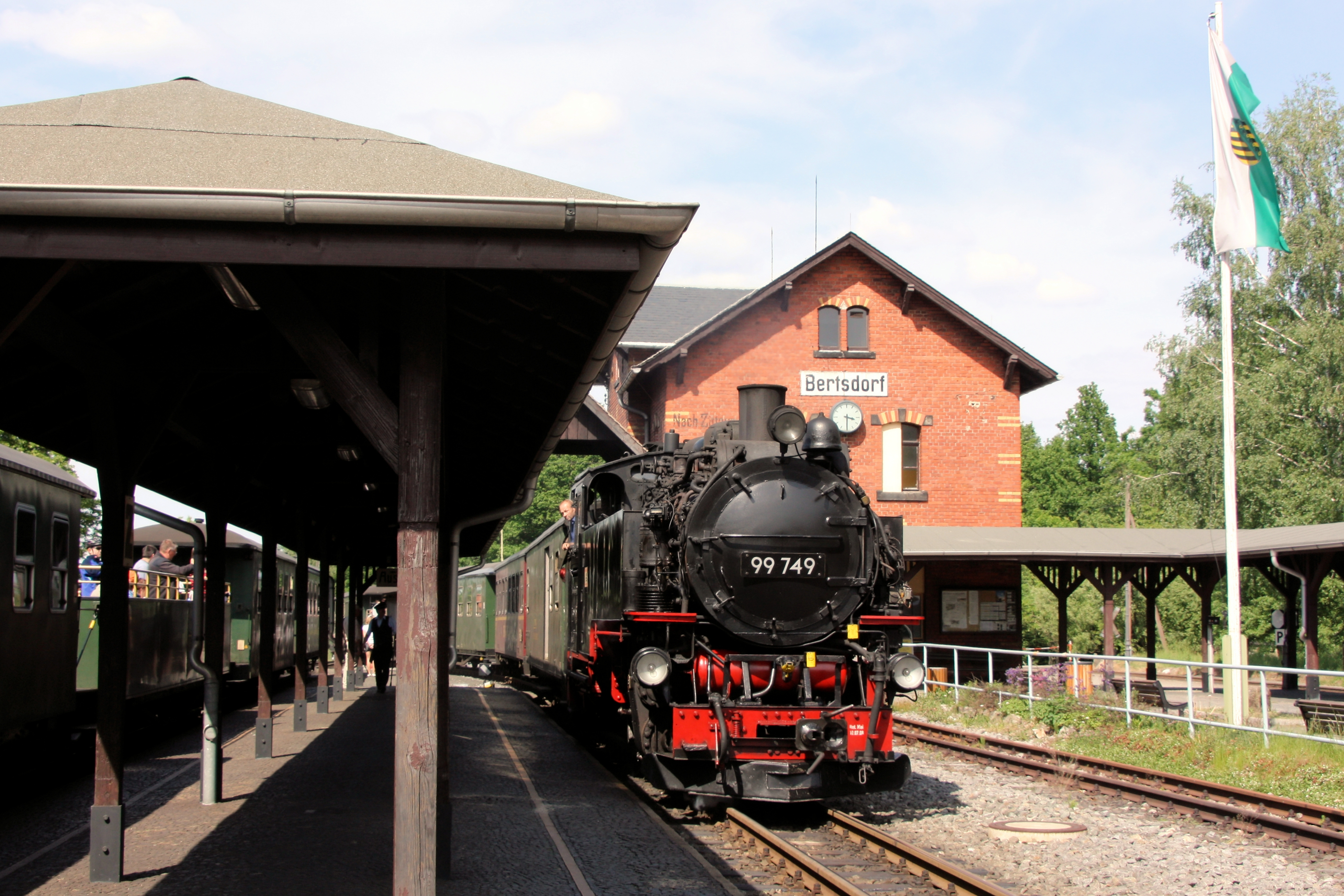 Two trains in Bertsdorf on 26 May 2012